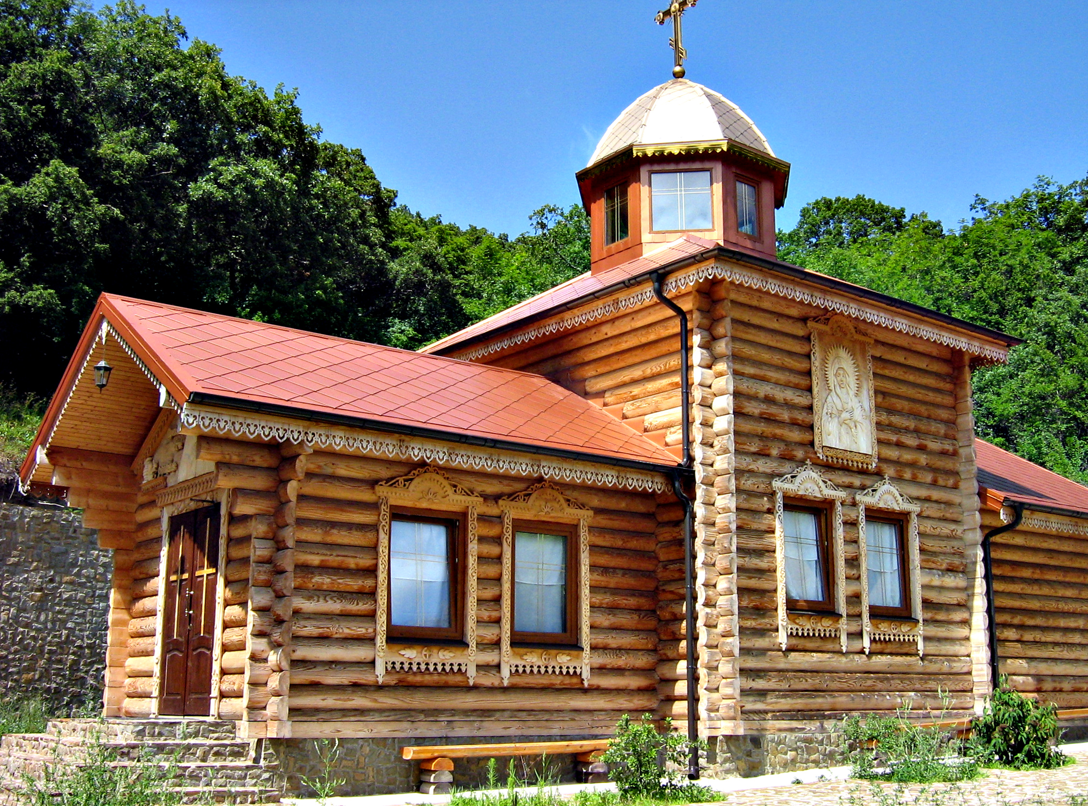 Monastery in Kyzyltash. Crimea. Ukraine.